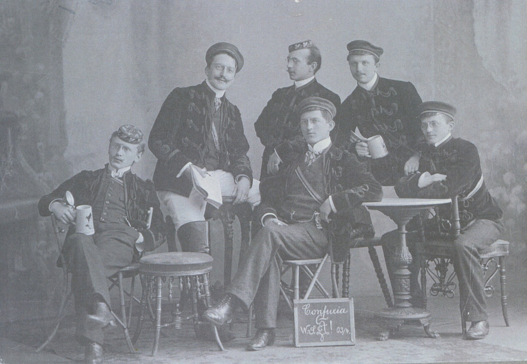 Junior members of the student fraternity Alemannia Leipzig 1903/04